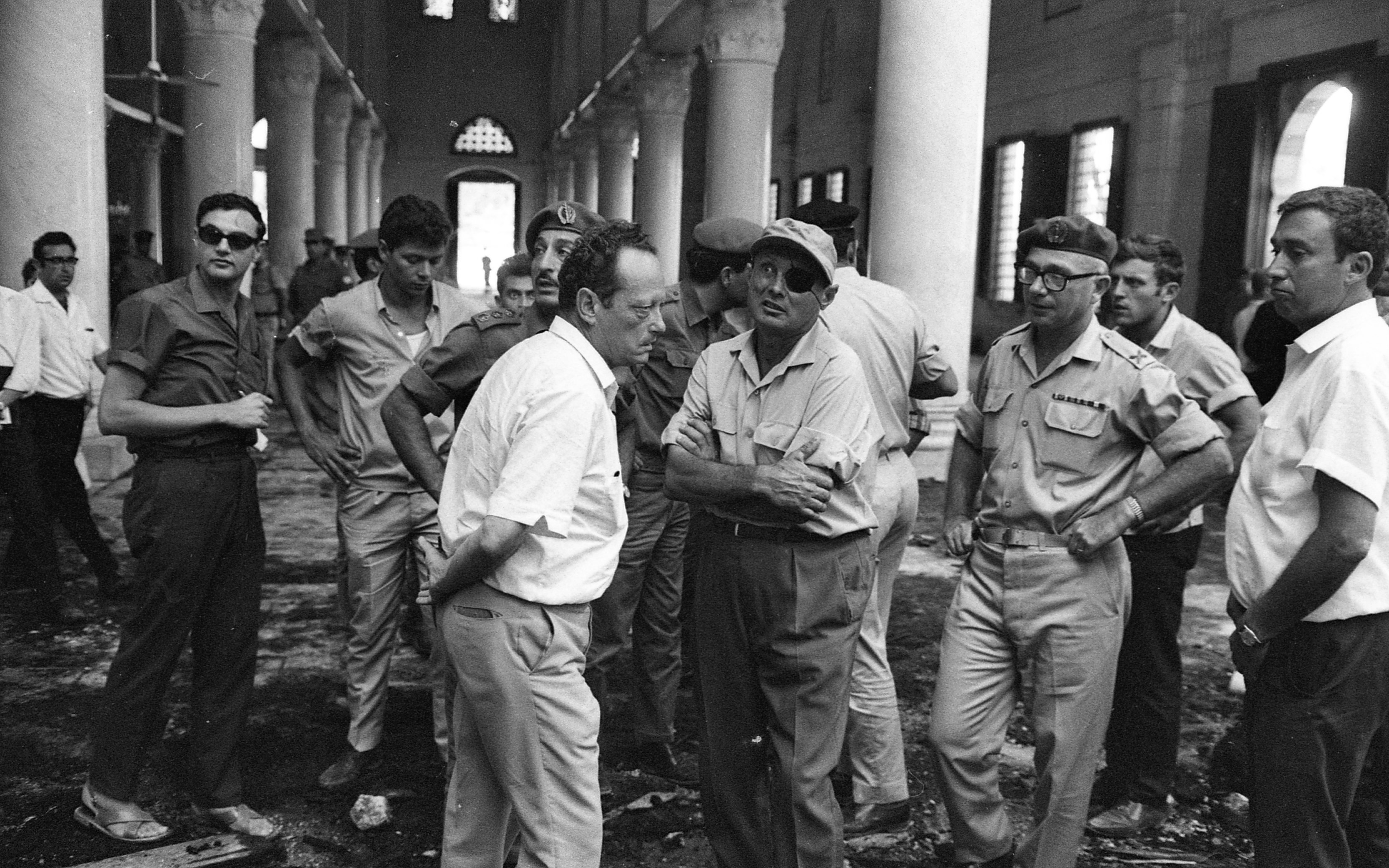 Yigal Allon and Moshe Dayan visiting al-Aqsa mosque On the day of the fire 21 August 1969.